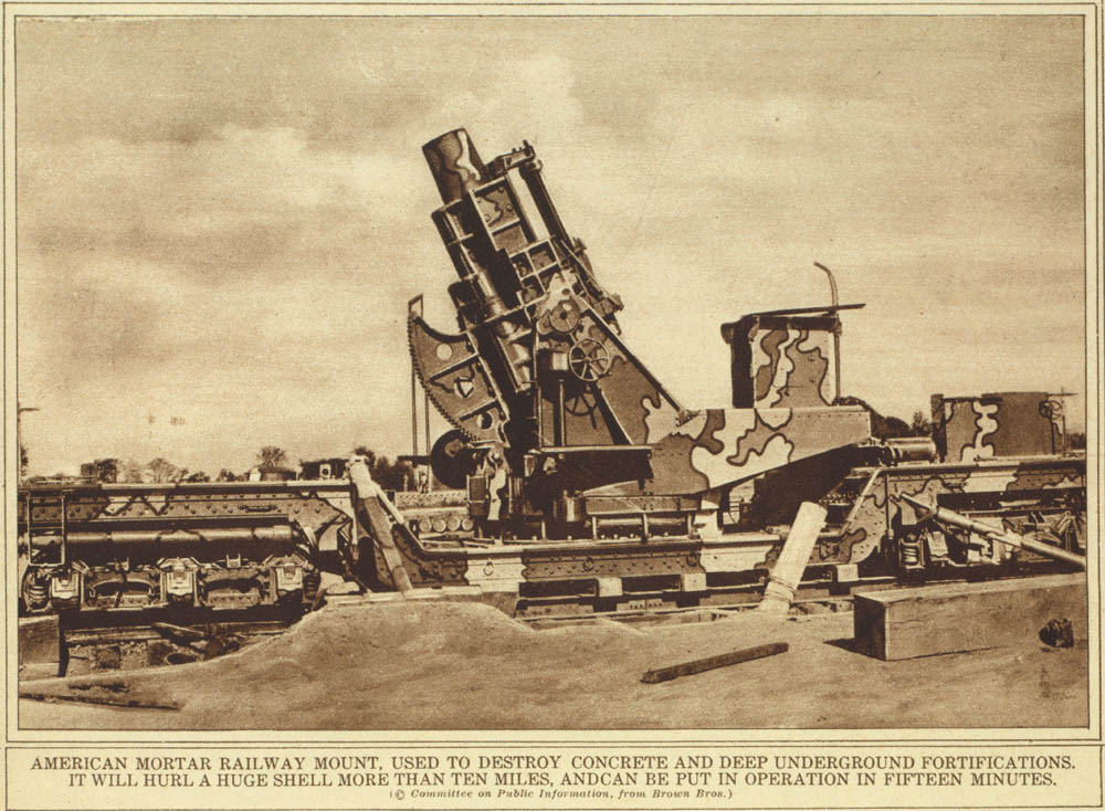 Photograph of US 12 inch mortar on railway mounting, World War I era.